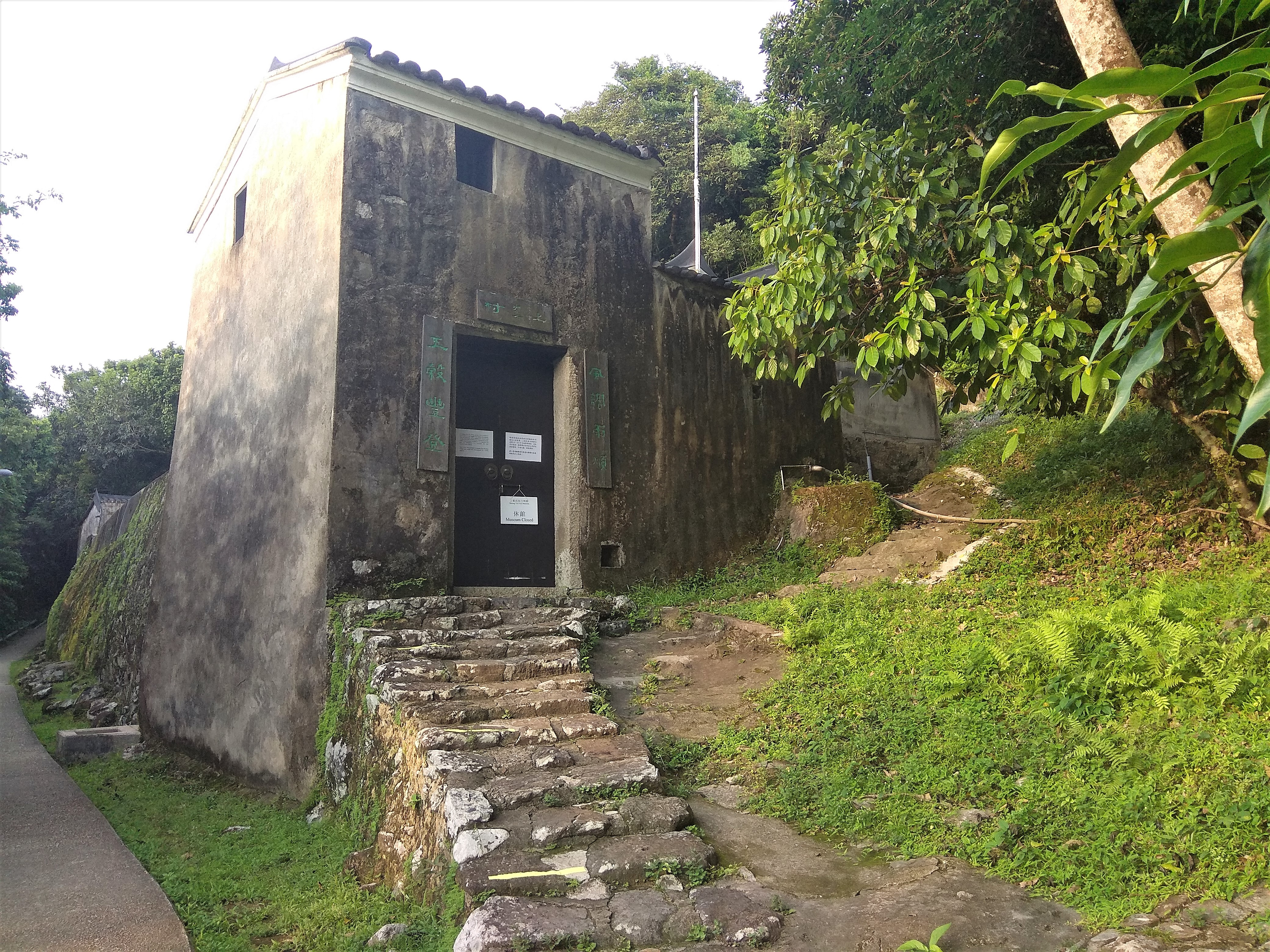 Sheung Yiu Folk Museum